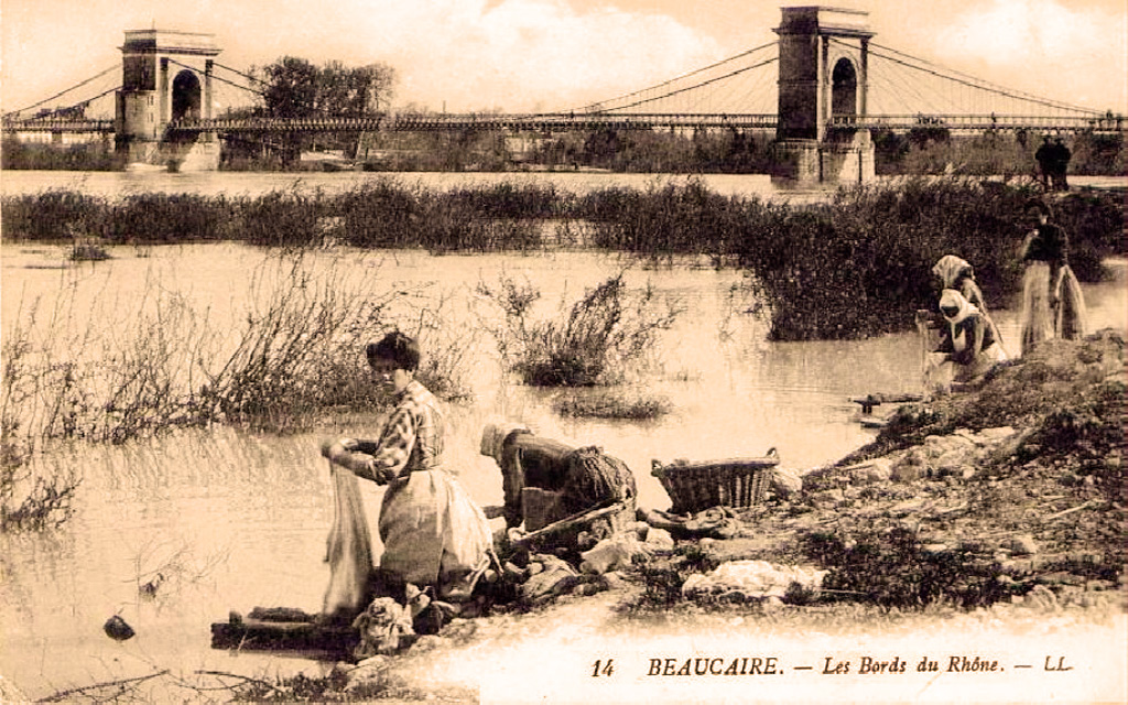 Washerwomen of Beaucaire